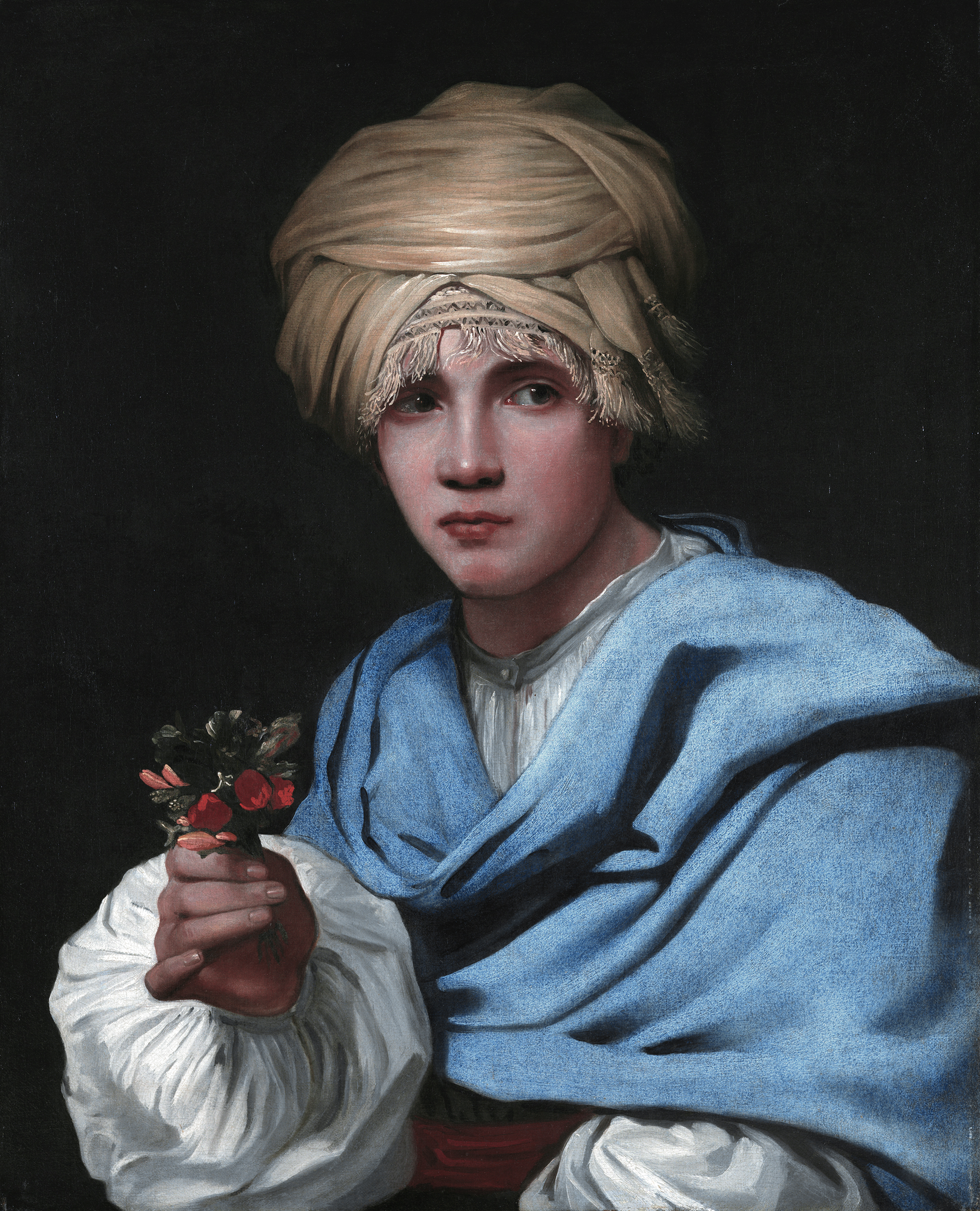 Boy in a turban holding a nosegay oil on canvas 76.4 x 61.8 cm 1658 - 1662